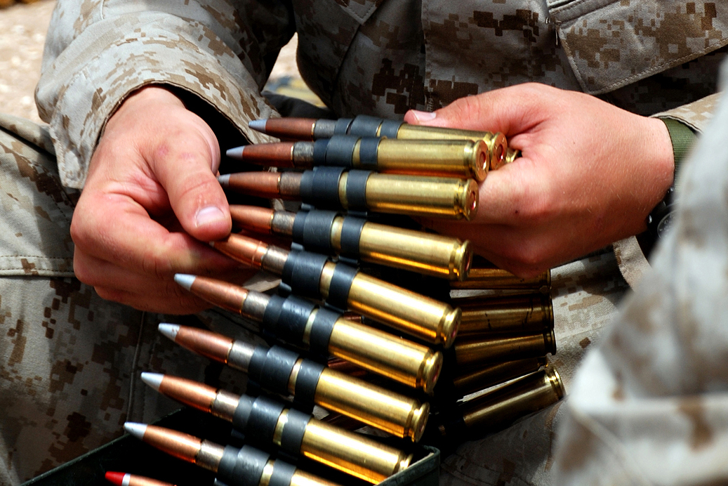 U.S. Marine Corps Cpl. Dane P. Giese counts his ammunition prior to firing the M2 .50 caliber machine gun during Exercise African Lion 2009 in Tifnit, Morocco, May 6, 2009.